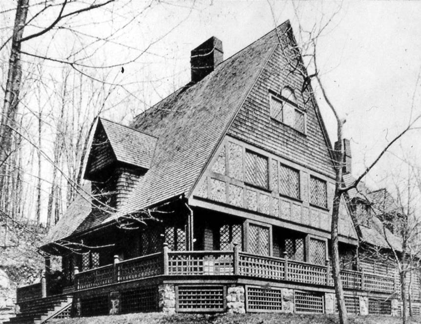 Winthrop Astor Chanler cottage, Tuxedo Park, New York (1885-86), Bruce Price, architect.